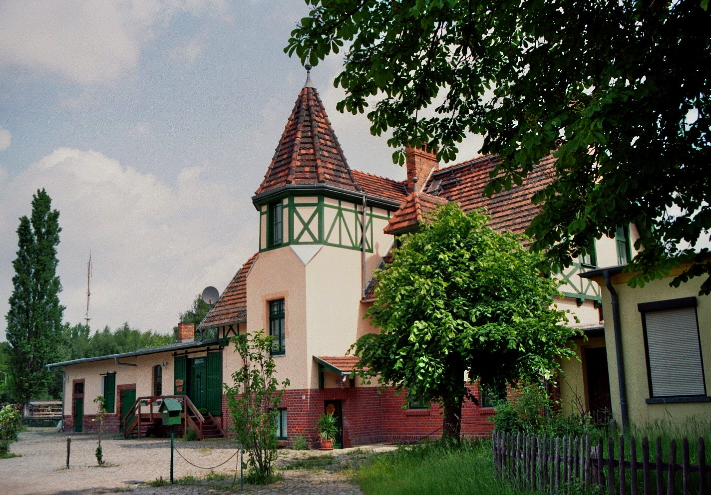 Spreewald train station (Spreewaldbahnhof) of Straupitz, Landkreis Dahme-Spreewald, Brandenburg, Germany.